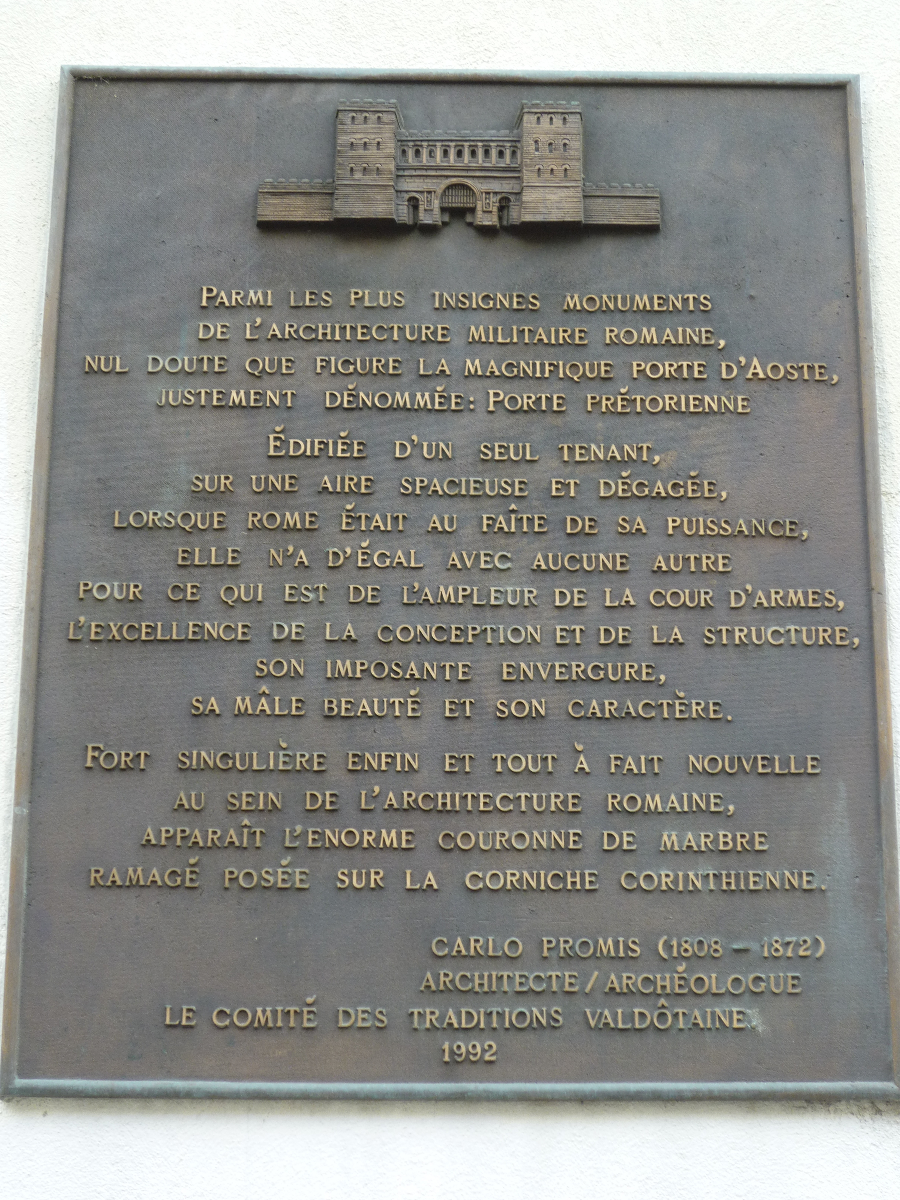 Pretorian door in Aosta (Italy)